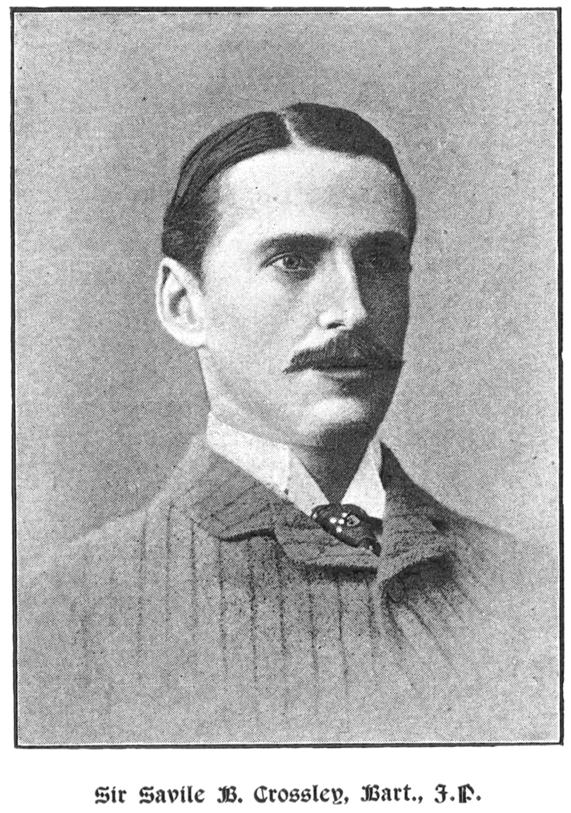 Photographic portrait of Sir Savile Binton Crossley published August 1893 in Suffolk Celebrities